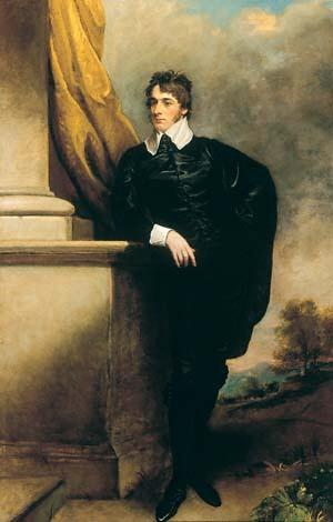 William Noel-Hill, 3rd Baron Berwick, MP (1772-1842)